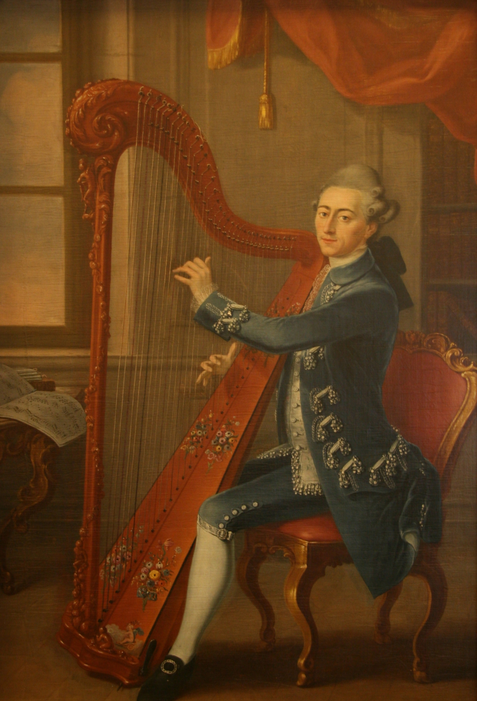 Portrait of Captain Louis-Claude Le Normand de Bretteville (1744-1835). Painted between 1760-1770, author unknown. The Museum of Decorative Arts and Design, Oslo, Norway